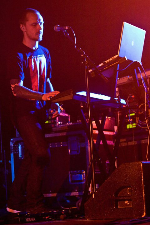 Massive Attack warmup. 9.06.08